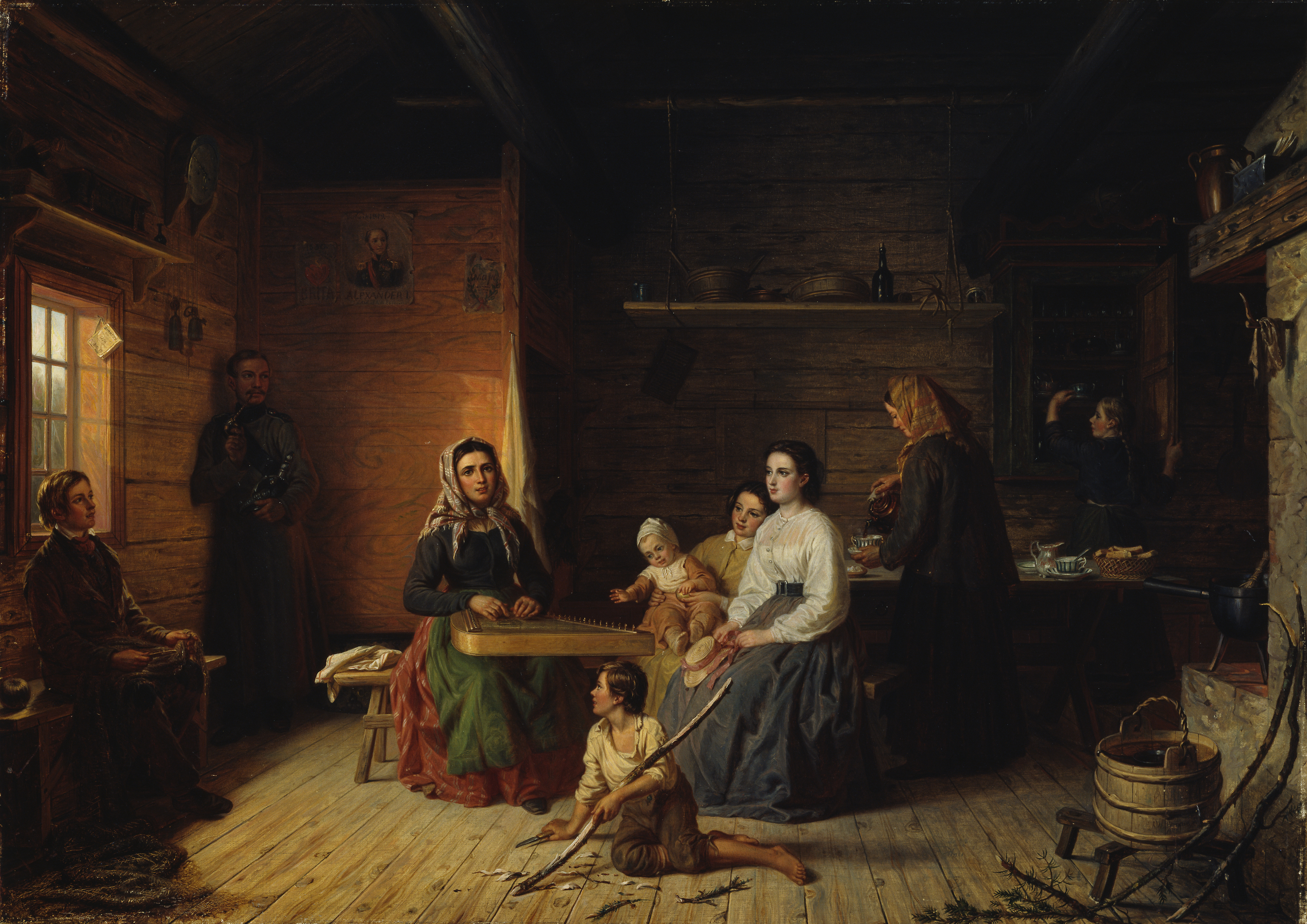 Six persons in a farmhouse, a woman sitting on a bench is playing the Kantele and others are listening